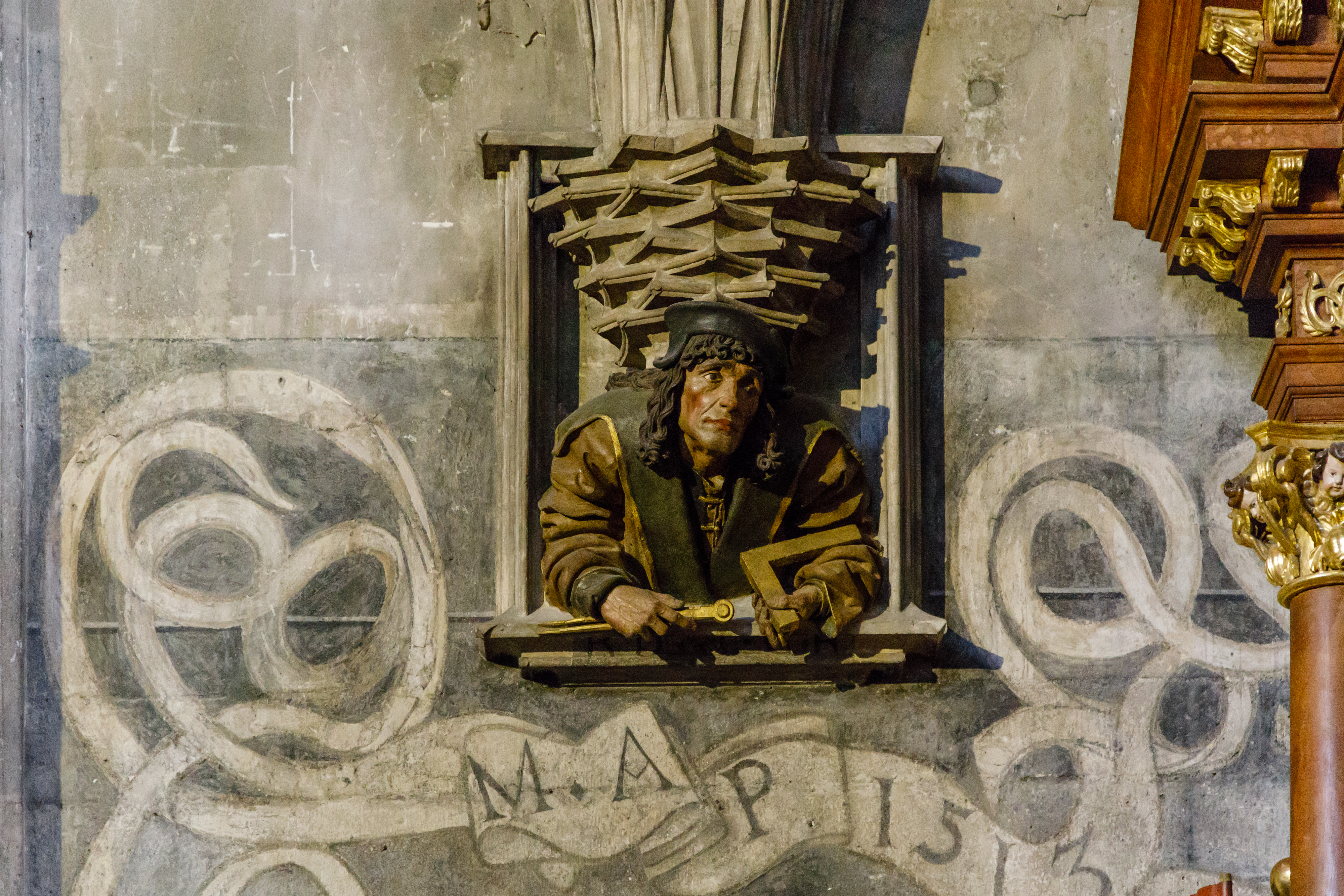 Vienna, Austria: Relief of Meister Pilgram in Stephansdom